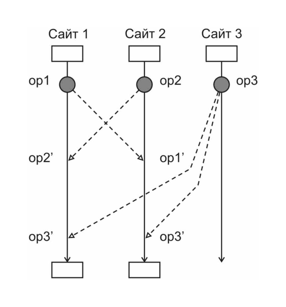 Illustration of the TP2 property